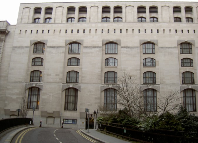 South Block, Old Bailey (1970 - 1972).